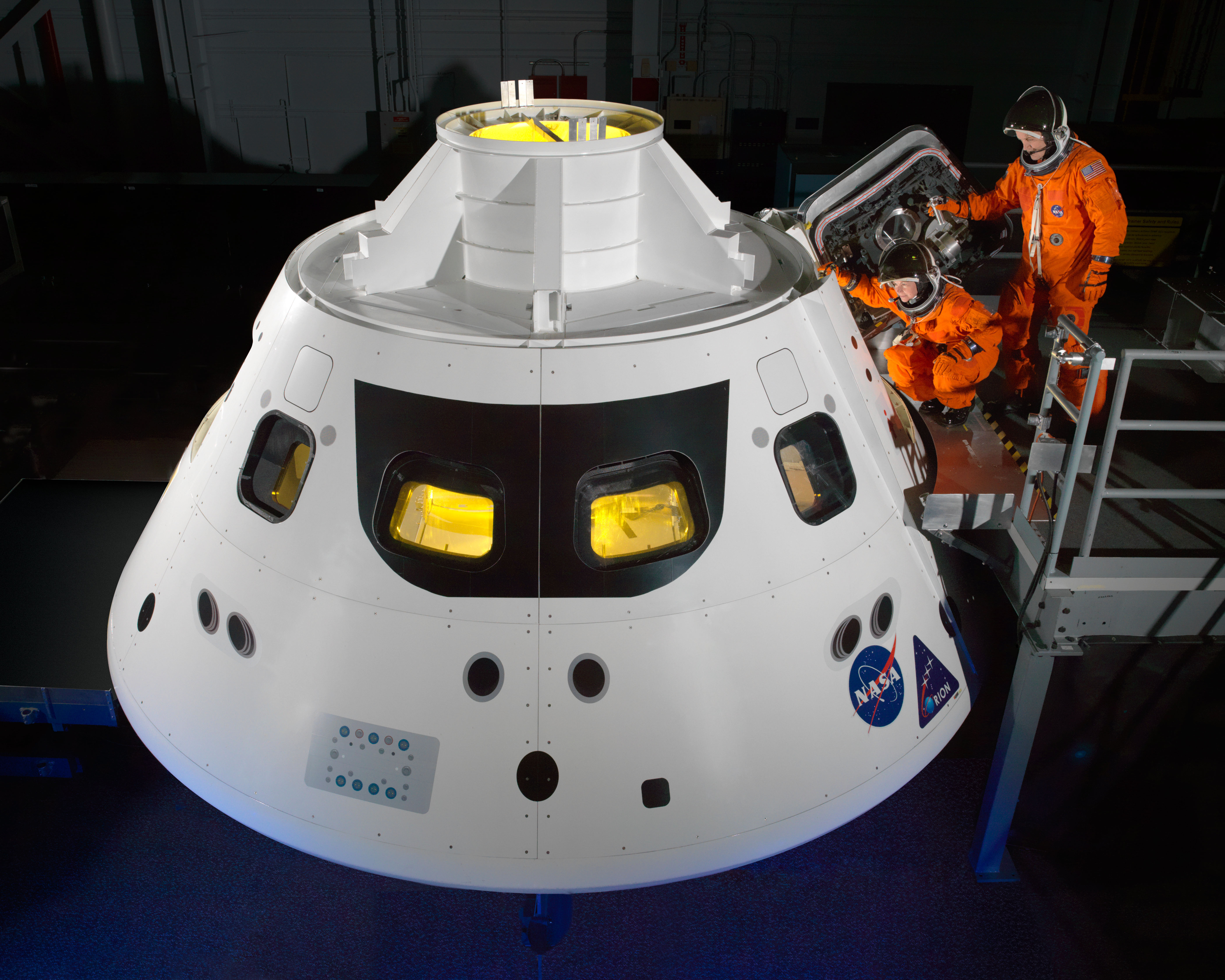 NASA astronauts Cady Coleman and Ricky Arnold step into the Orion crew module mockup during a series of spacesuit check tests conducted on June 13, 2013 at the Space Vehicle Mockup Facility at the agency’s Johnson Space Center in Houston. The Orion crew module will serve as both transport and a home to astronauts during future long-duration missions to an asteroid, Mars and other destinations throughout our solar system.